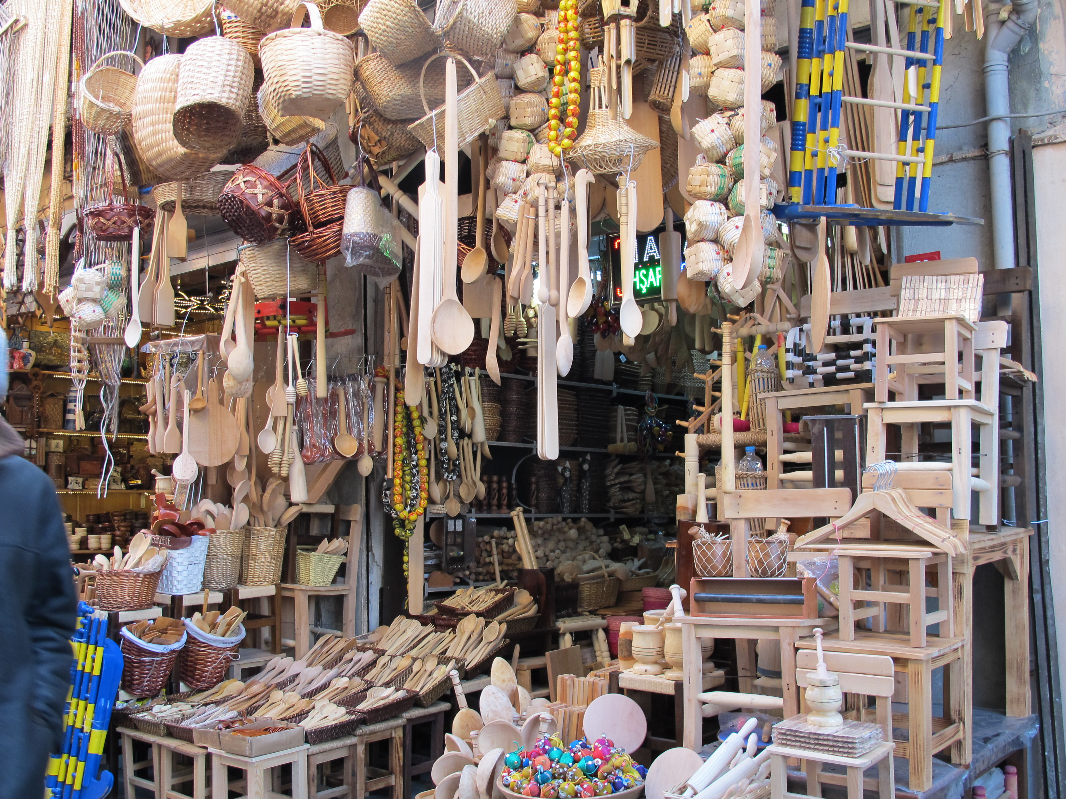 A shop selling any implement made of wood in the Istanbul spice bazar